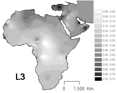 Interpolation maps for L3 haplogroup in the sub-Saharan pool observed in each sample.